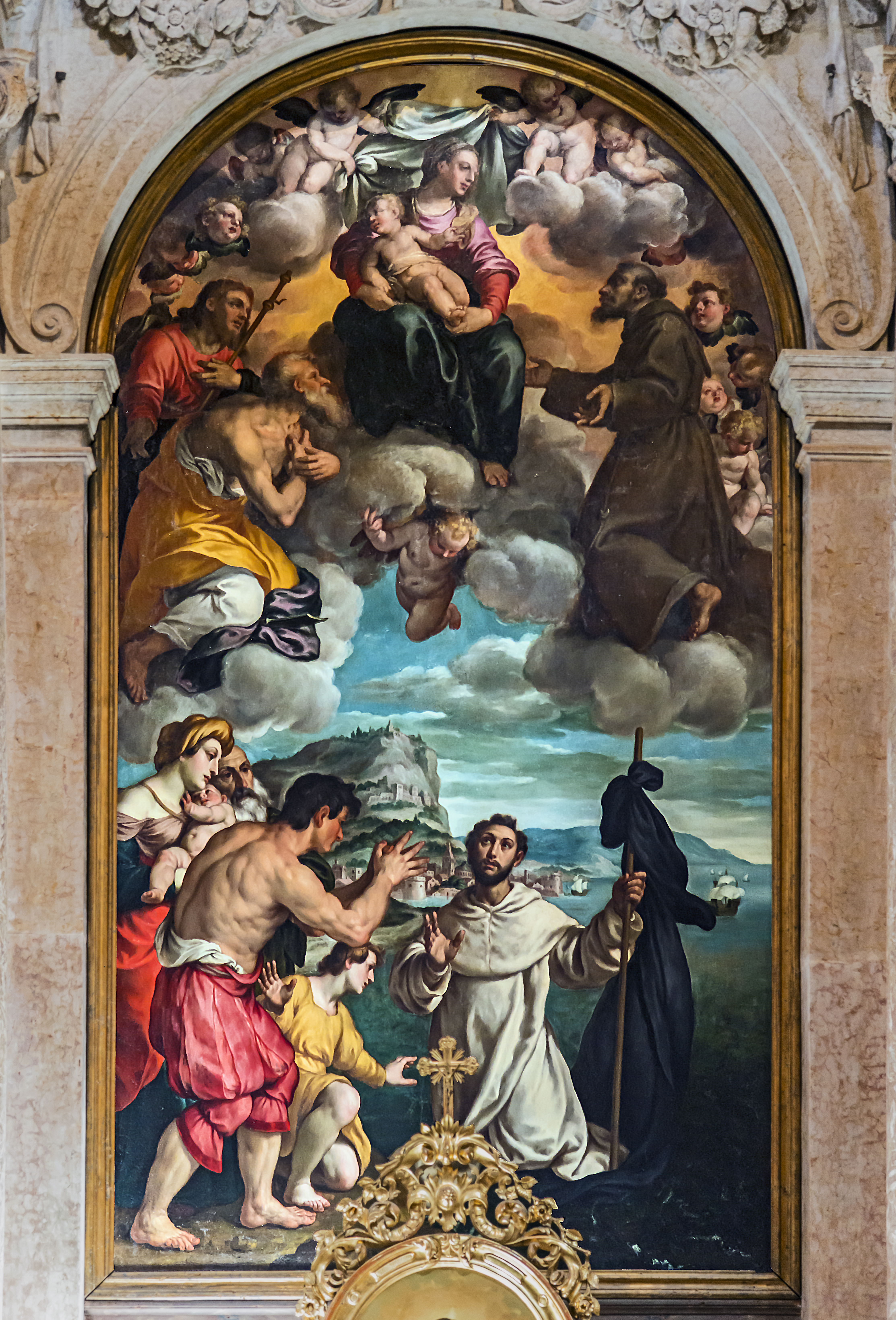 Sant'Anastasia (Verona). Altar of Raimundo de Peñafort. Table altarpiece was begun by Felice Riccio and finished by Alessandro Turchi.